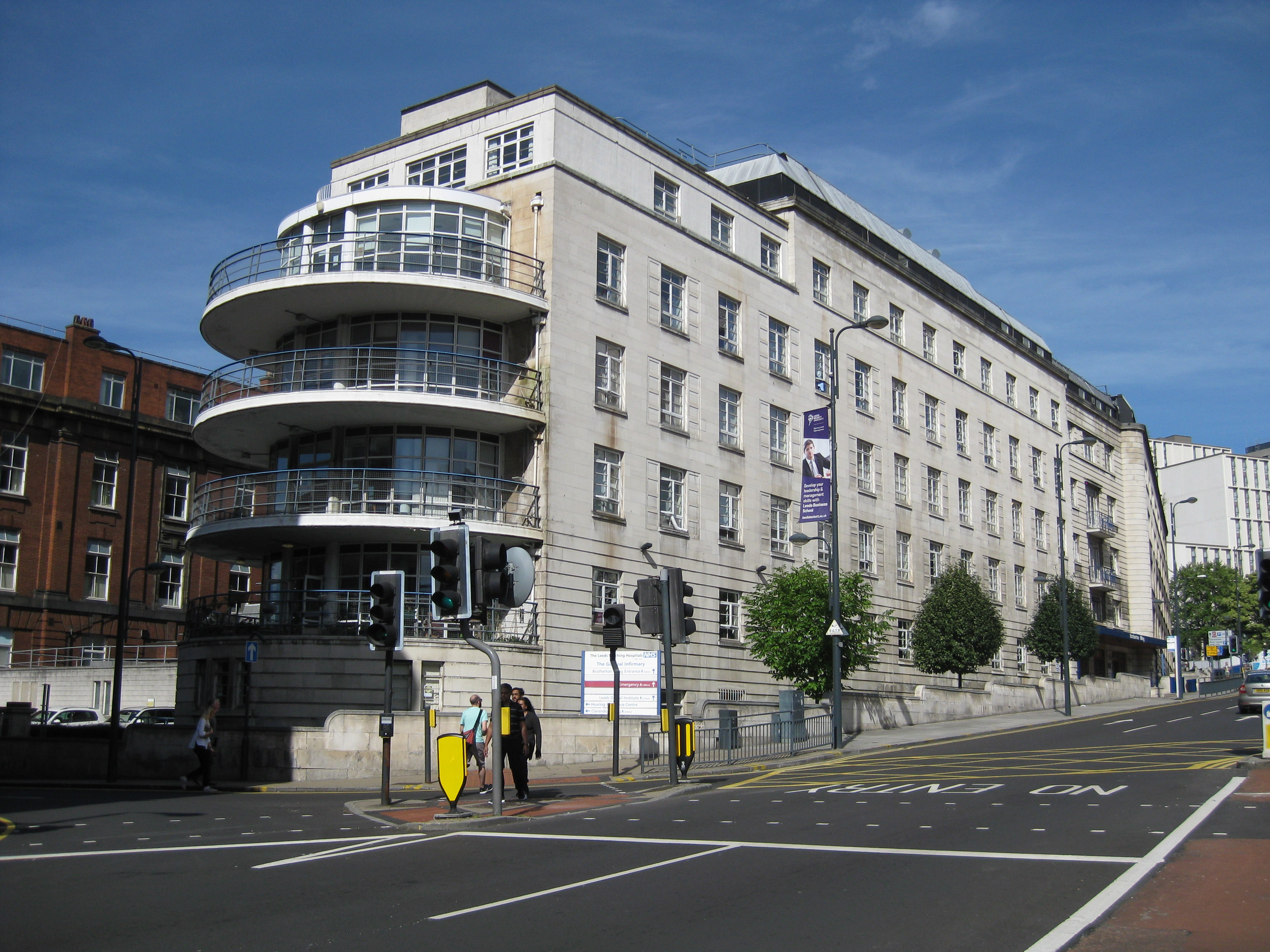 Brotherton Wing of Leeds General Infirmary.